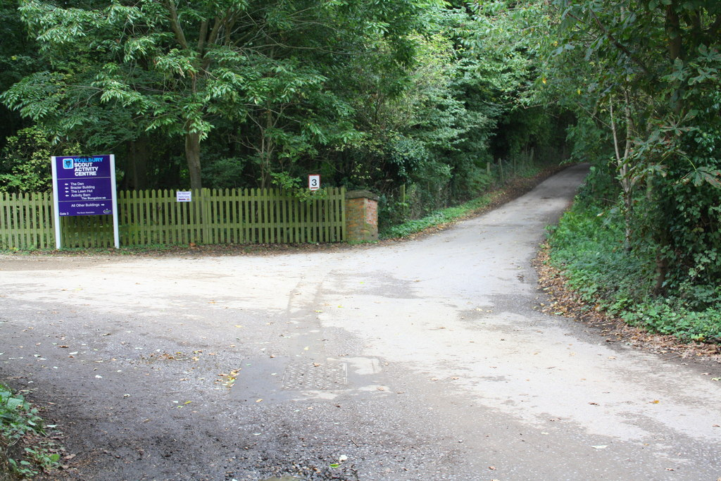 Gate 3 entrance to Youlbury Scout Activity Centre